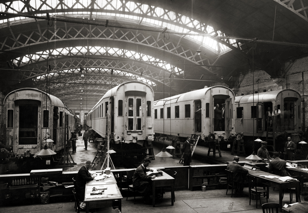 Production floor at the Lilpop, Rau & Loewenstein factory in Warsaw